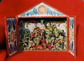 Photo of Peruvian Retablo